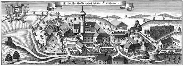 Castle Neufraunhofen in Lower Bavaria